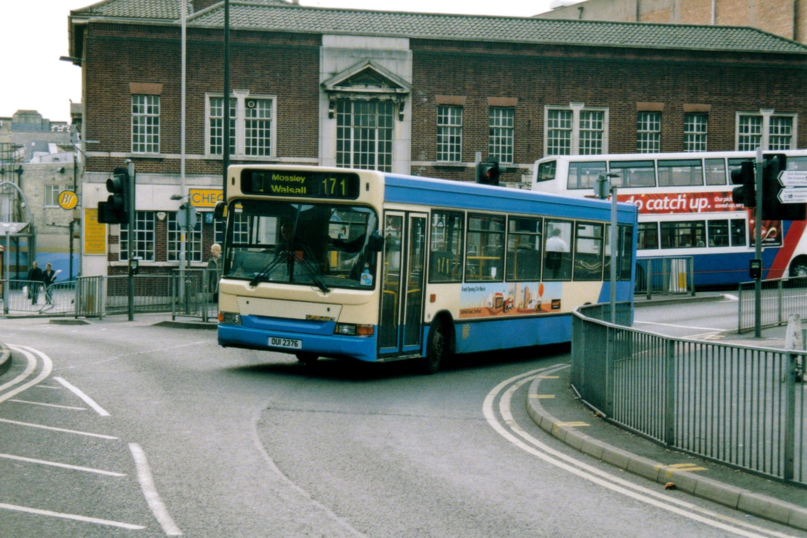 Choice Travel 104 (OUI 2376, originally T429 EDB), a Dennis Dart SLF, at Walsall. It wears the livery of parent company D&G of Adderley Green